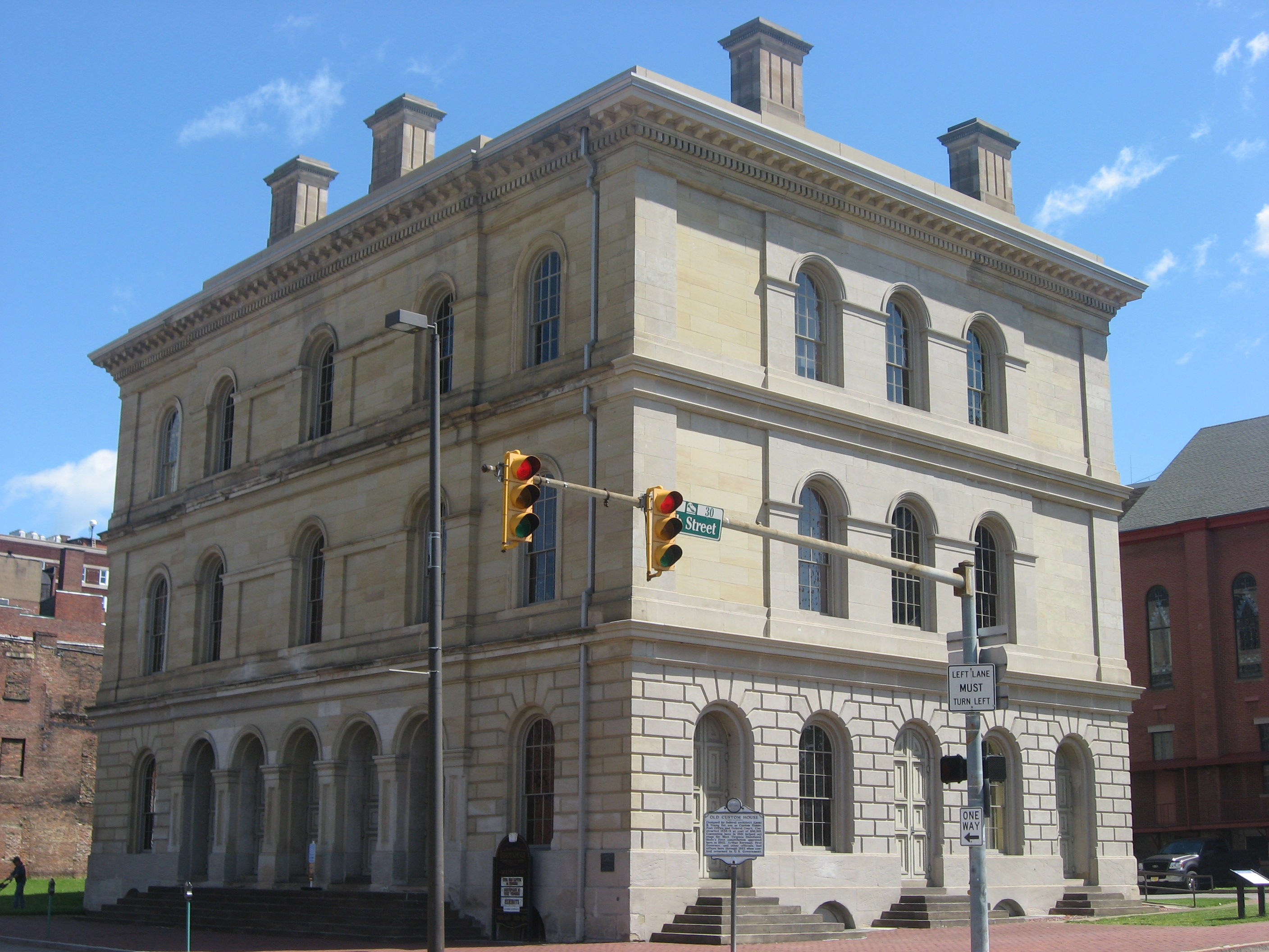 Southern and western sides of West Virginia Independence Hall, located at 1524 Market Street in downtown Wheeling, West Virginia, United States. Built in 1859 as a federal custom house and courthouse, it became West Virginia's state capitol building during the confusion and conflict of the American Civil War; it is today a museum. It was listed on the National Register of Historic Places in 1970 and declared a National Historic Landmark in 1988.